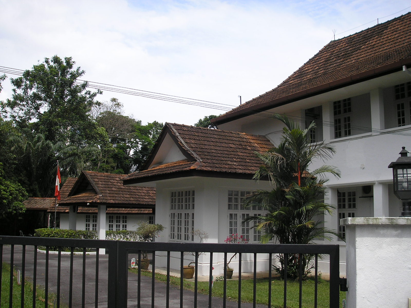 The Residence of the Ambassador of Peru in Kuala Lumpur, at Jalan Langgak Golf, place of many embassies and residences.